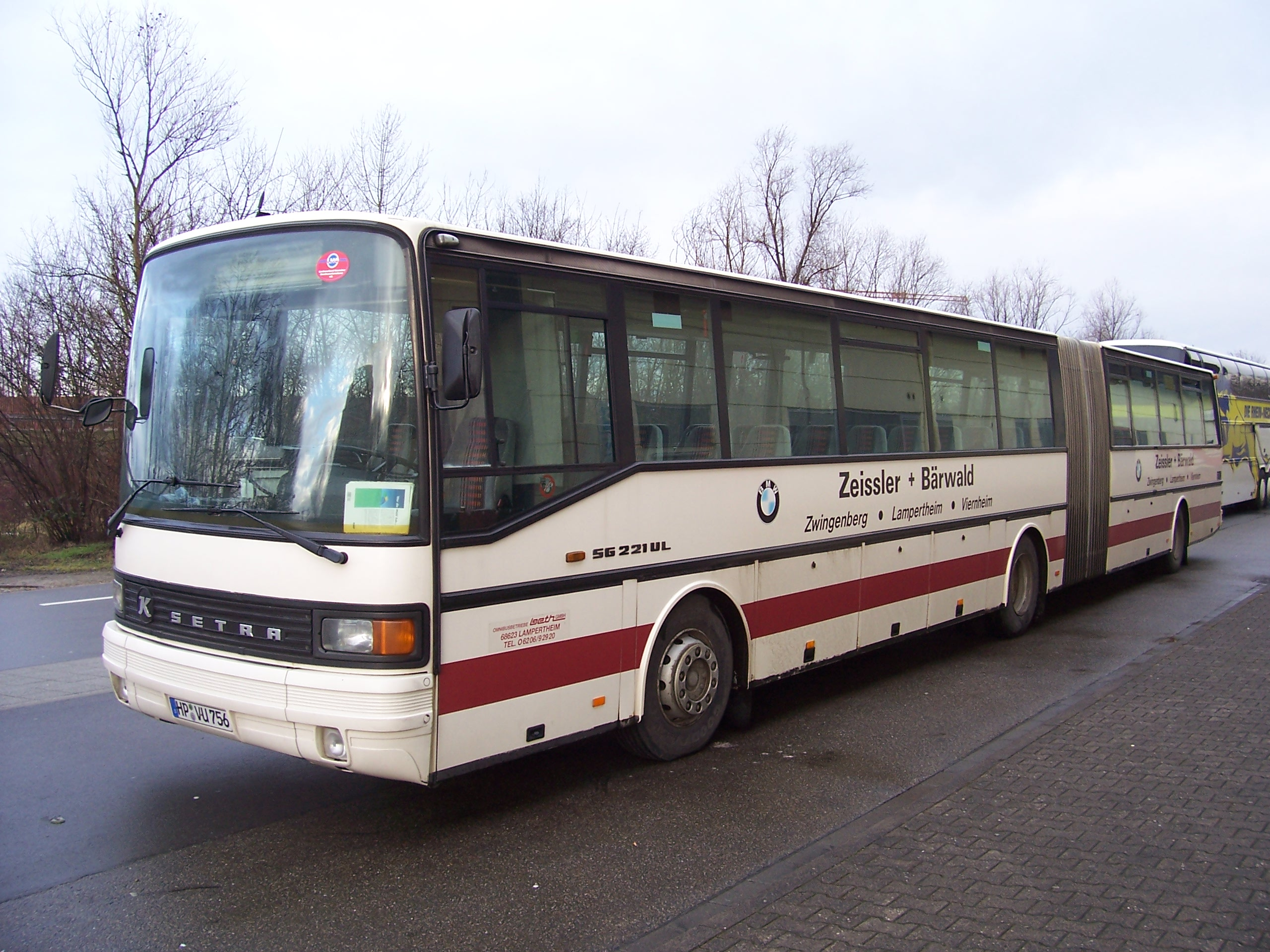 A Setra SG 221 UL articulated bus in Viernheim, Germany My own photo